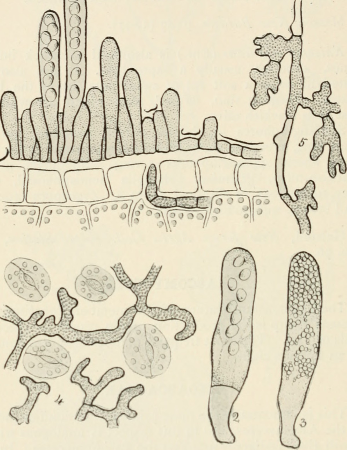 Taphrina deformans. Asci at cuticula leaf. Fig. 31. I, Exoascus deformans, showing asci in various stages of development bursting through the cuticula of the leaf; 2, ascus of Exoascus pruni, showing stalk-cell at base of ascus, and eight spores; 3, ascus of Taphrina aurea filled with secondary spores produced by budding of the ascospores ; 4, surface view of mycelium of Taphrina sadebeckii on leaf of Alnus glutinosa ; 5, differentiation of fertile or ascogenous hyphae from vegetative hyphae of Taphrina sadebeckii. (Figs. 4 and 5 after Sadebeck.) All highly mag. upon. The asci at first contain eight spores, but in the majority of instances these spores germinate in the ascus, by the process of budding or germination, as in yeasts.